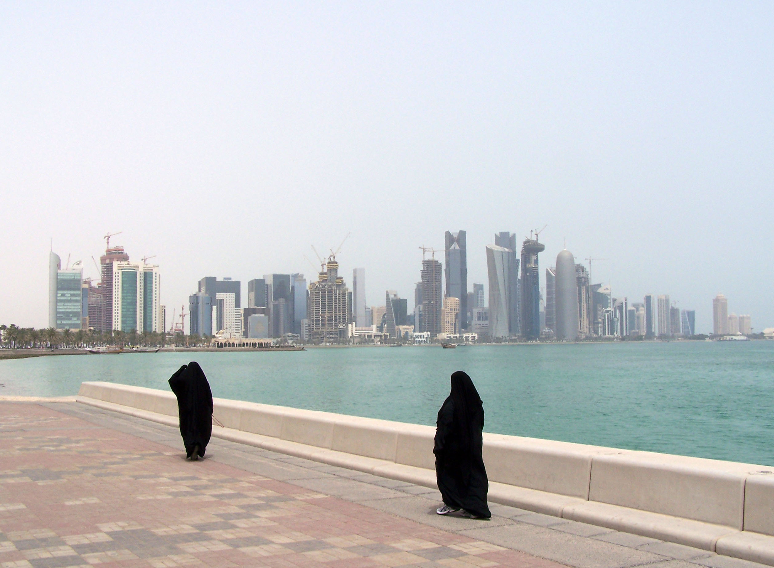 Skyline of Doha, Qatar